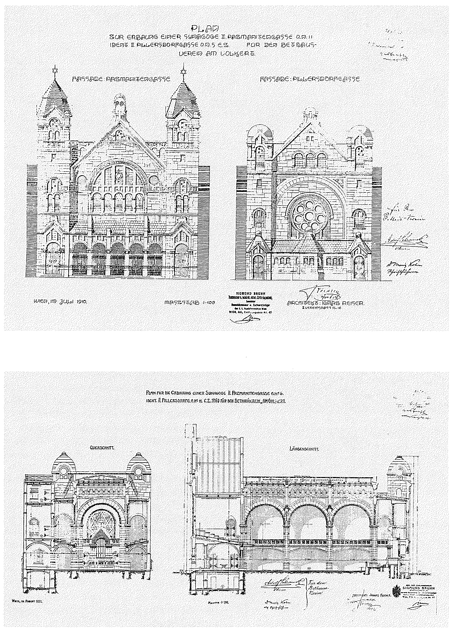 Original drawing plans of the Synagogue at the Pazmanitengasse in Vienna, also called "Pazmanitentempel".